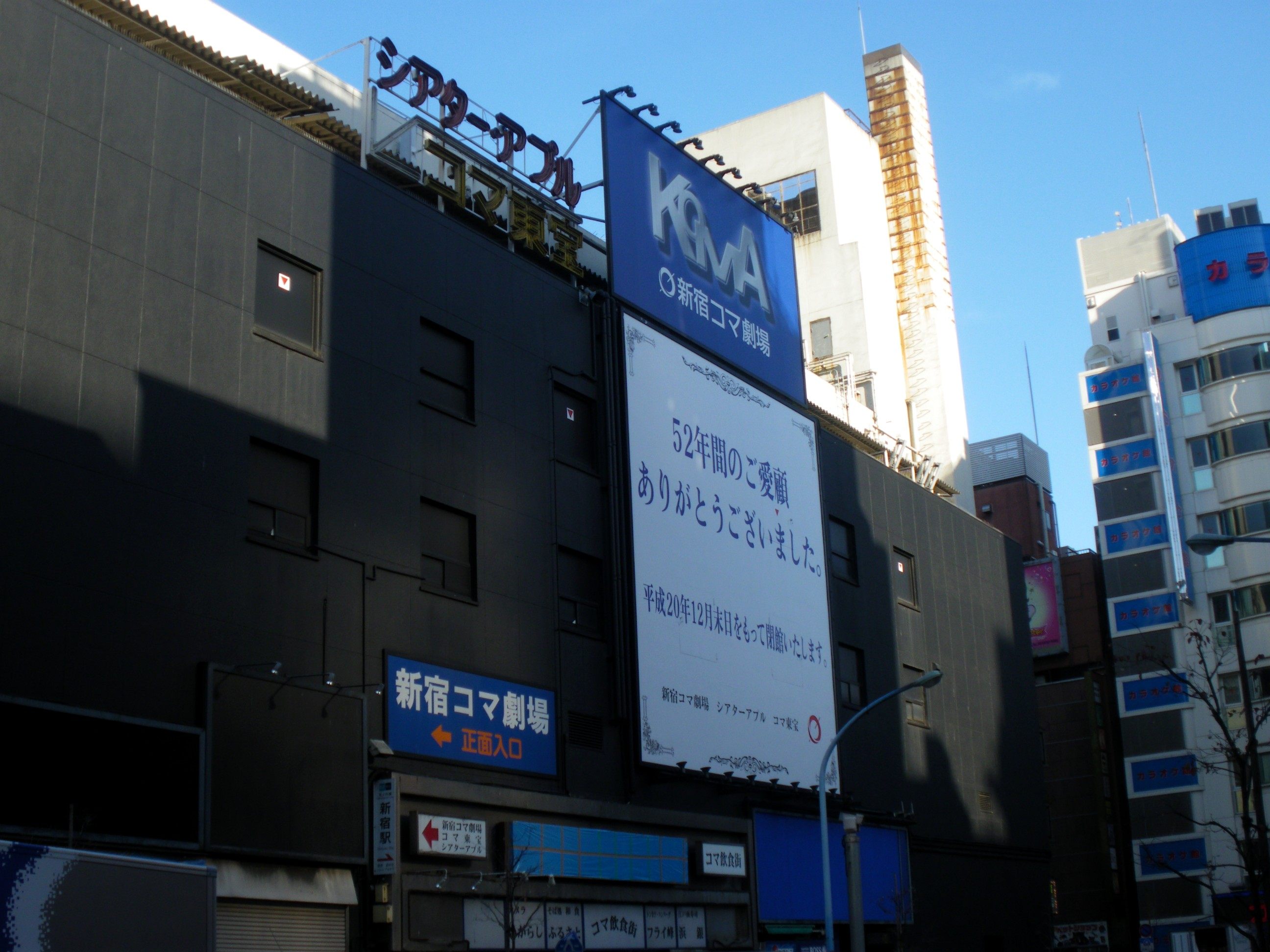 A photo of a bulletin board of Shinjuku Koma Studium,a famous theater in Shinjuku,Tokyo,Japan.It says"Thank you for your patronage for 52 years.This theater will be closed on December 31, 2008."